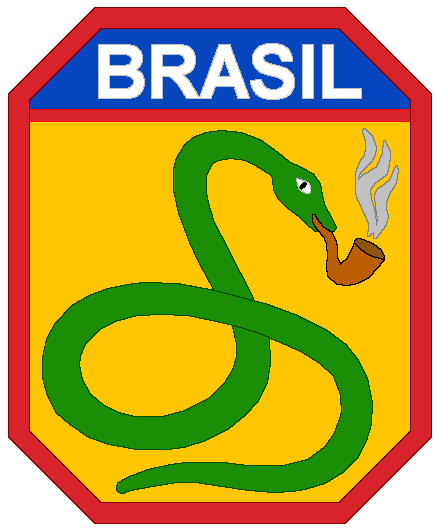 Badge of Brazilian Expeditionary Force.